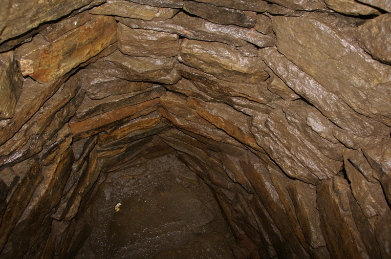 Mine Howe, Tankerness, Mainland, Orkneys, Scotland. Cistern.